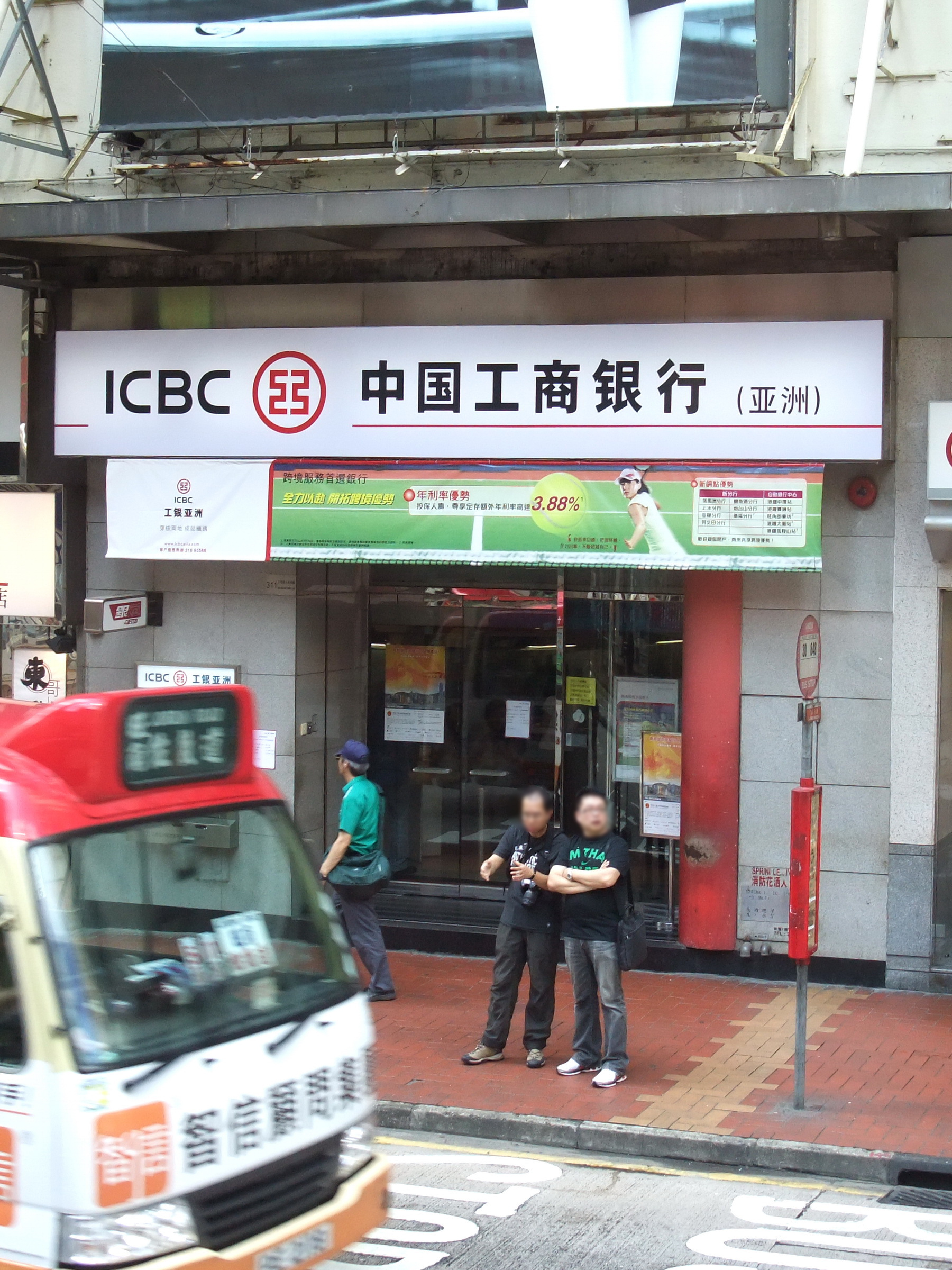 Industrial and Commercial Bank of China Limited (Tsuen Wan, Hong Kong)